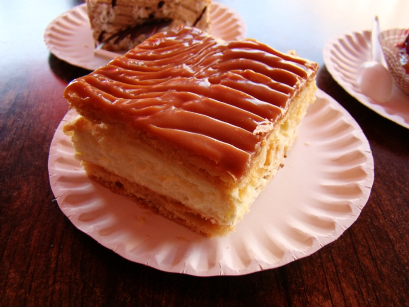 Cakes in Sanok